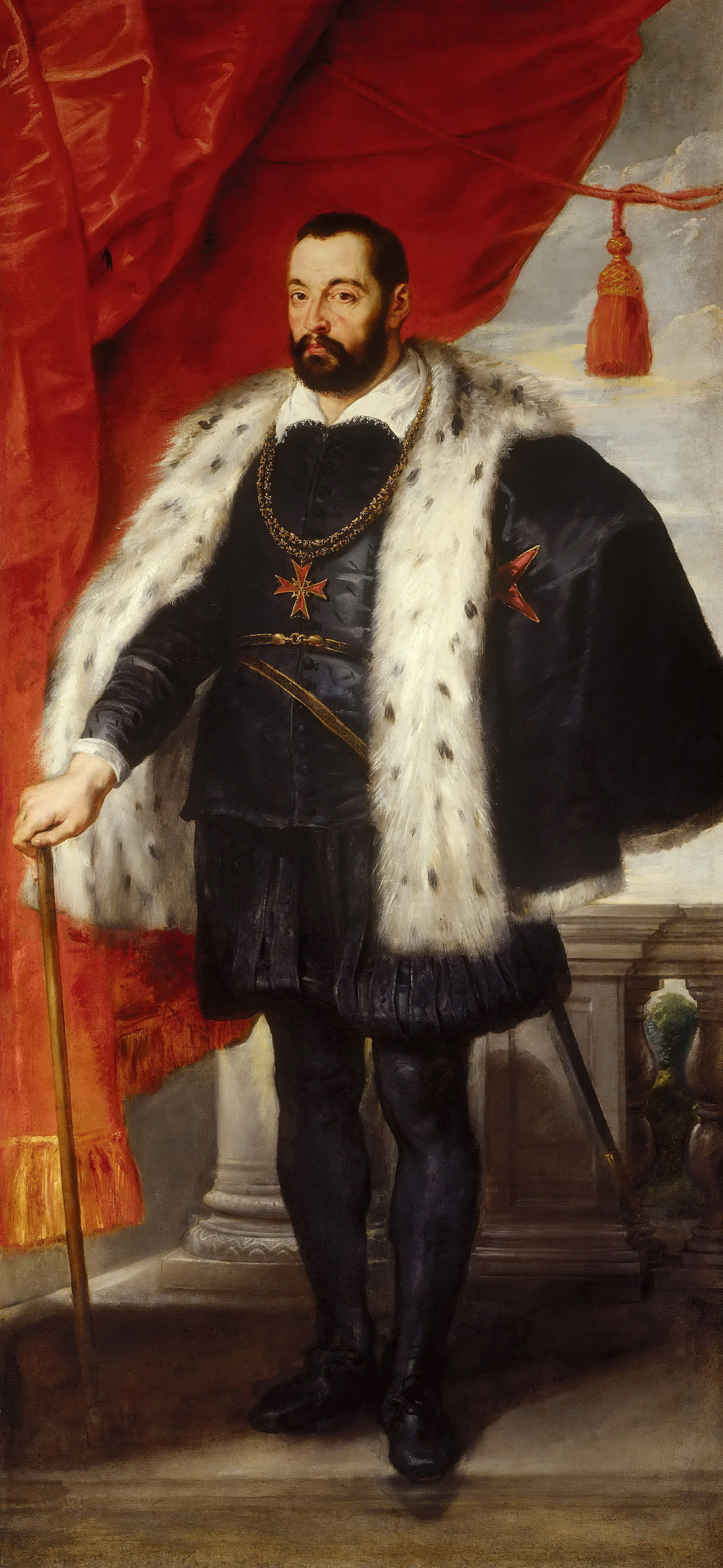 Francesco I de' Medici, Grand Duke of Tuscany